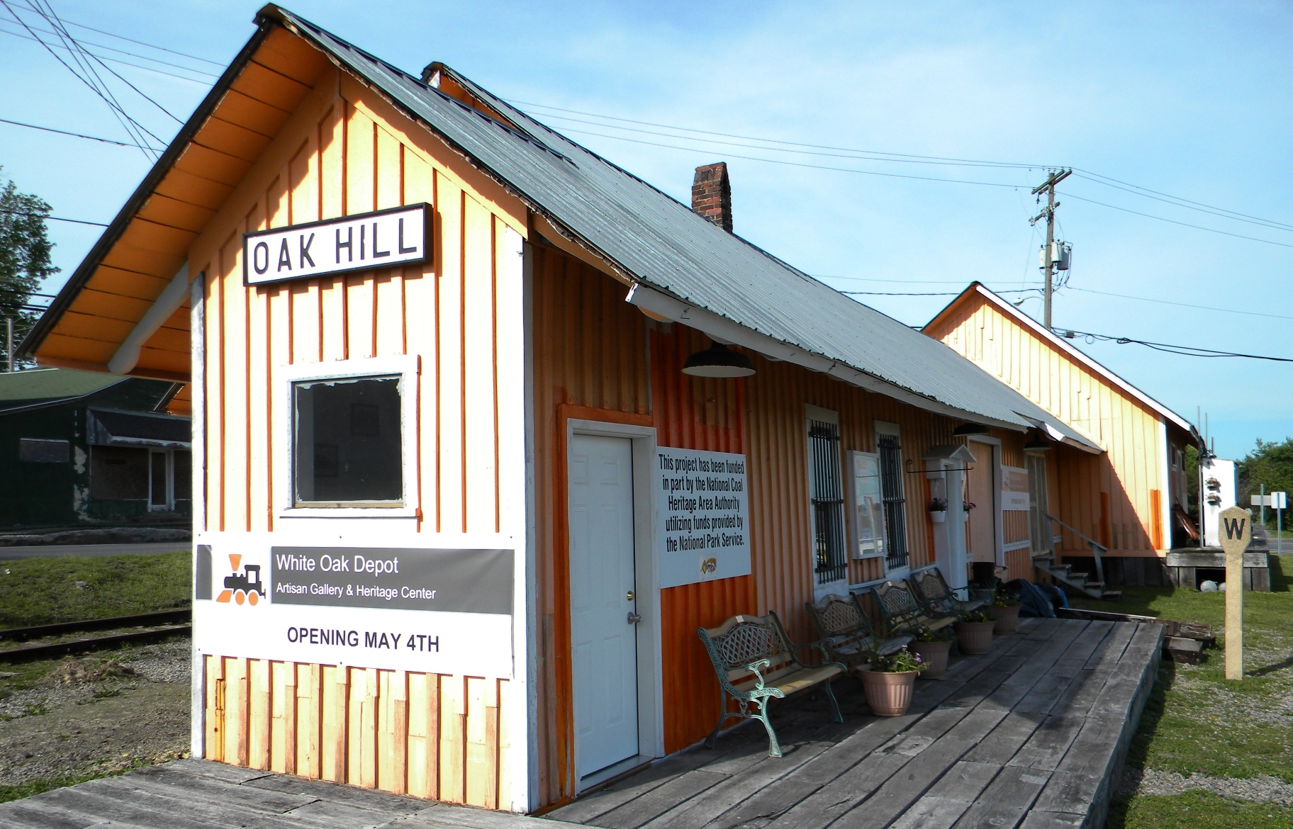 Oak Hill Train Depot, Mt Hope West Virginia